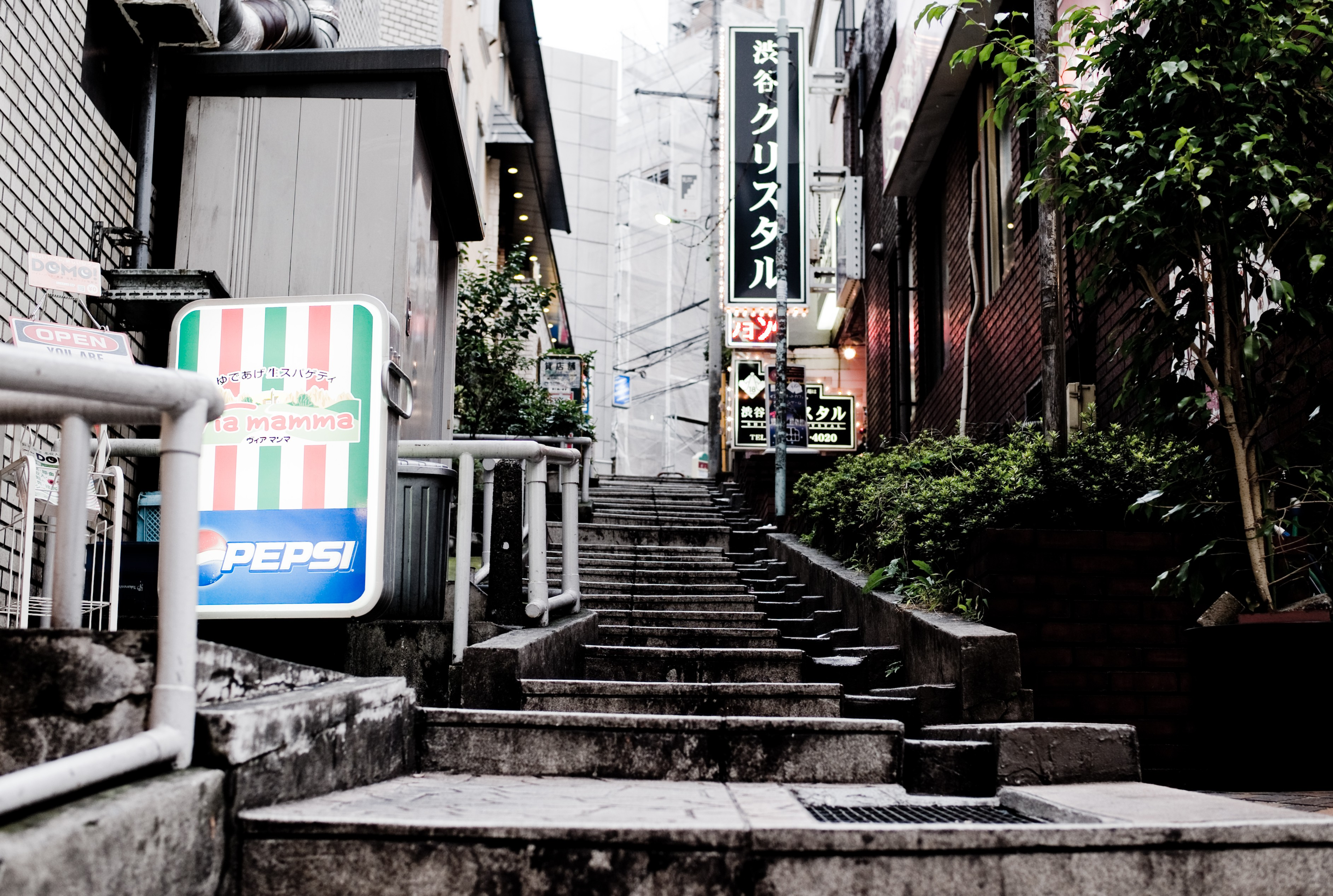 Maruyama-chō, Shibuya, Tōkyō